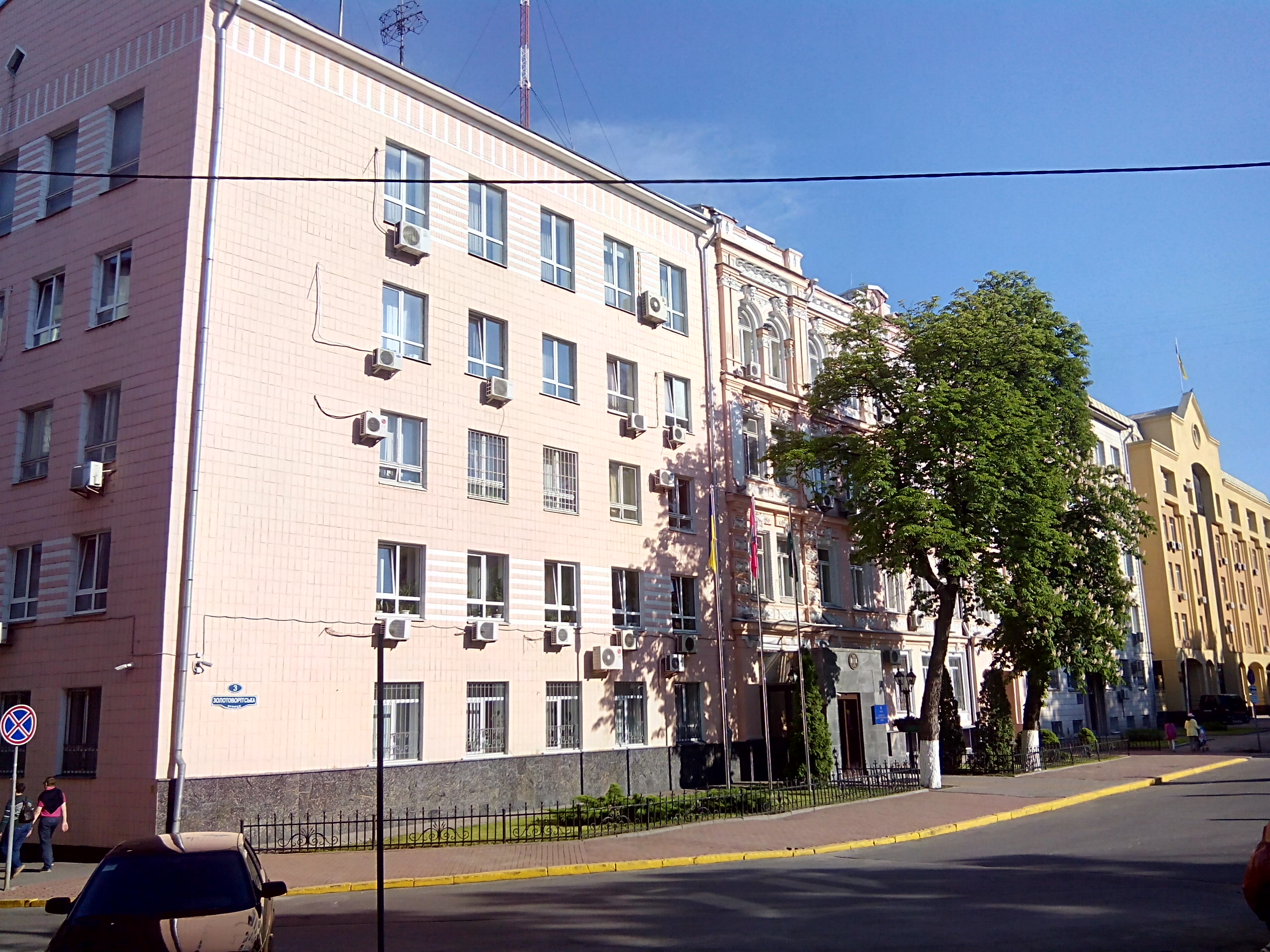 State Border Guard Service of Ukraine headquaters